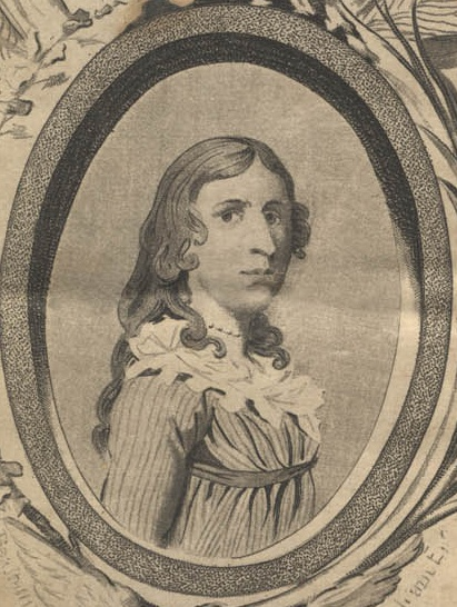 Engraved portrait of Deborah Sampson, female American Revolutionary War soldier